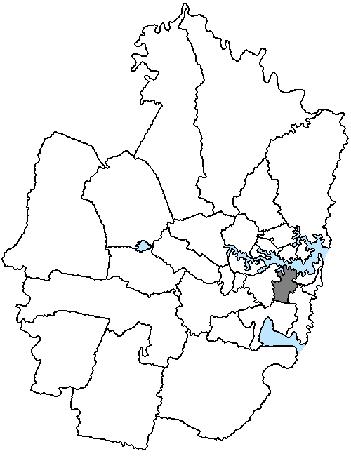 Map of LGAs in Sydney/New South Wales/Australia (Inner Sydney in light grey, LGA of City of Sydney in dark grey)